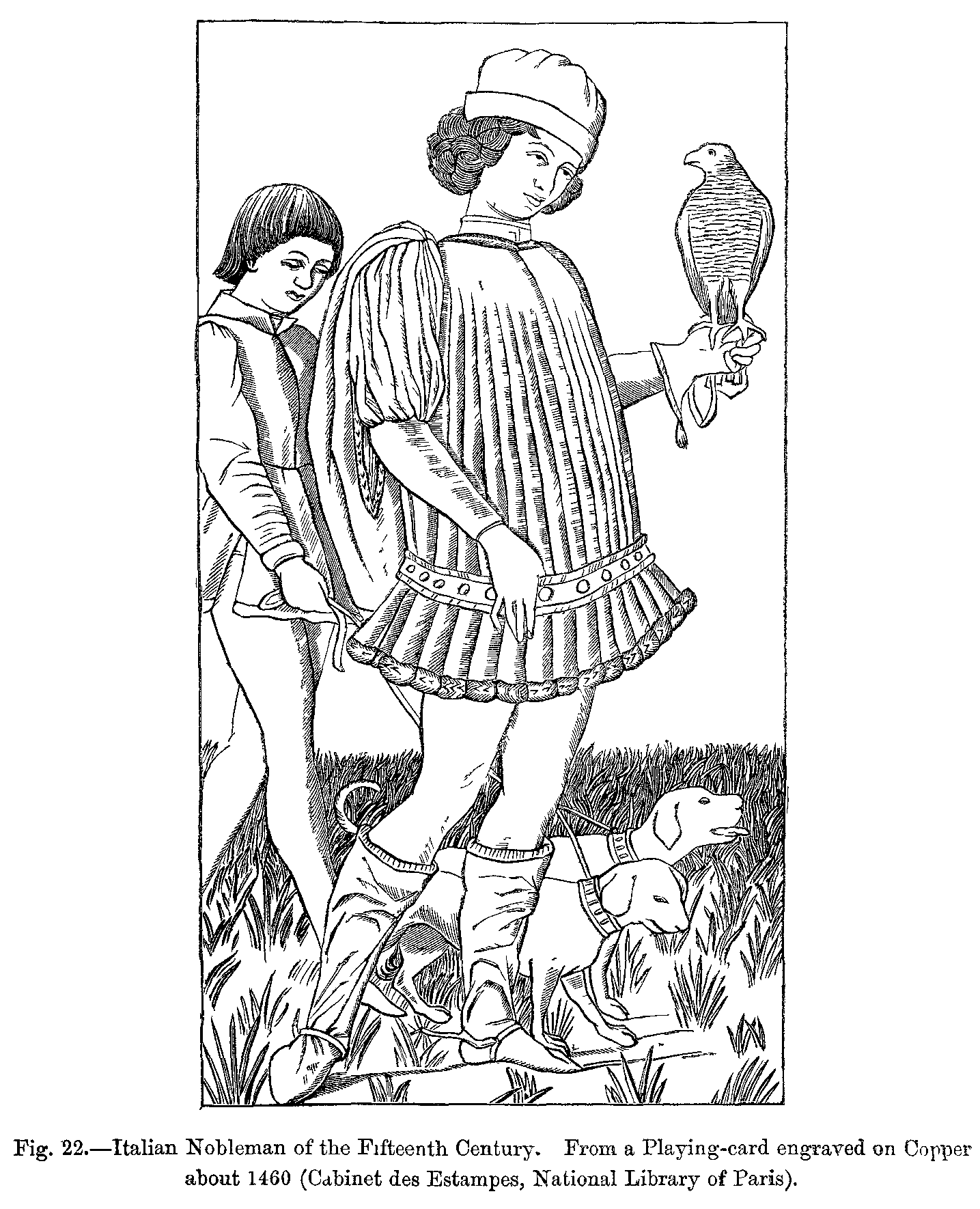 The caption reads: “Italian Nobleman of the Fifteenth Century. From a Playing-card engraved on Copper about 1460 (Cabinet des Estampes, National Library of Paris).” Project Gutenberg text 10940. — This is a free reproduction of engraving no. 5 from the E-series of the so-called Mantegna Tarocchi; the reproduction misses the ornamental margin and the original caption of the engraving, reading E --- Zintilomo · V · --- 5 (“Zintilomo” is venetian dialect for Gentleman). Today, the Mantegna Tarocchi are no longer regarded as playing cards; they may have had some educational purpose and were probably made around 1465 by an unknown artist in Ferrara.